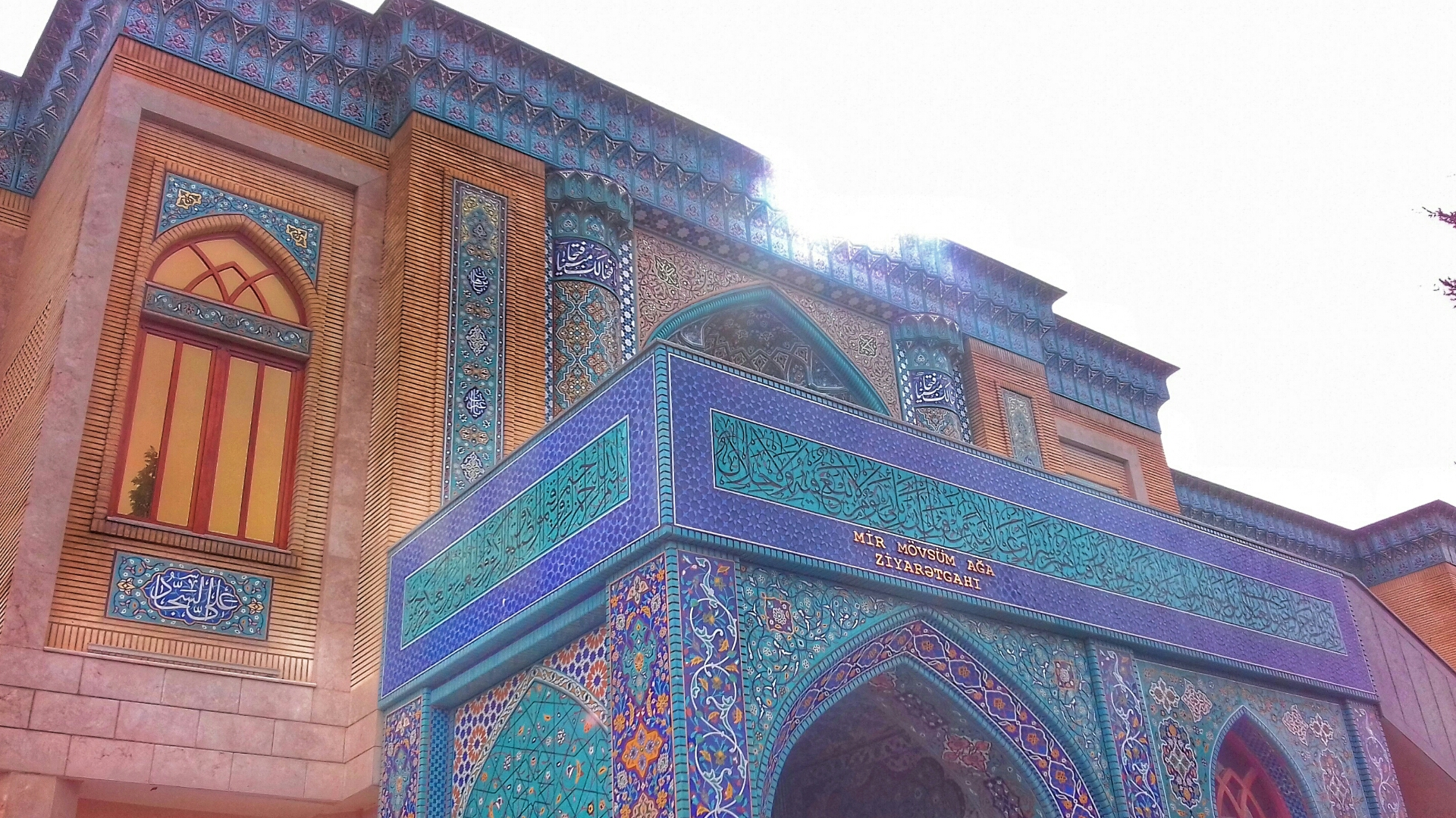 Mir Movsum Aga's sanctuary (mosque)